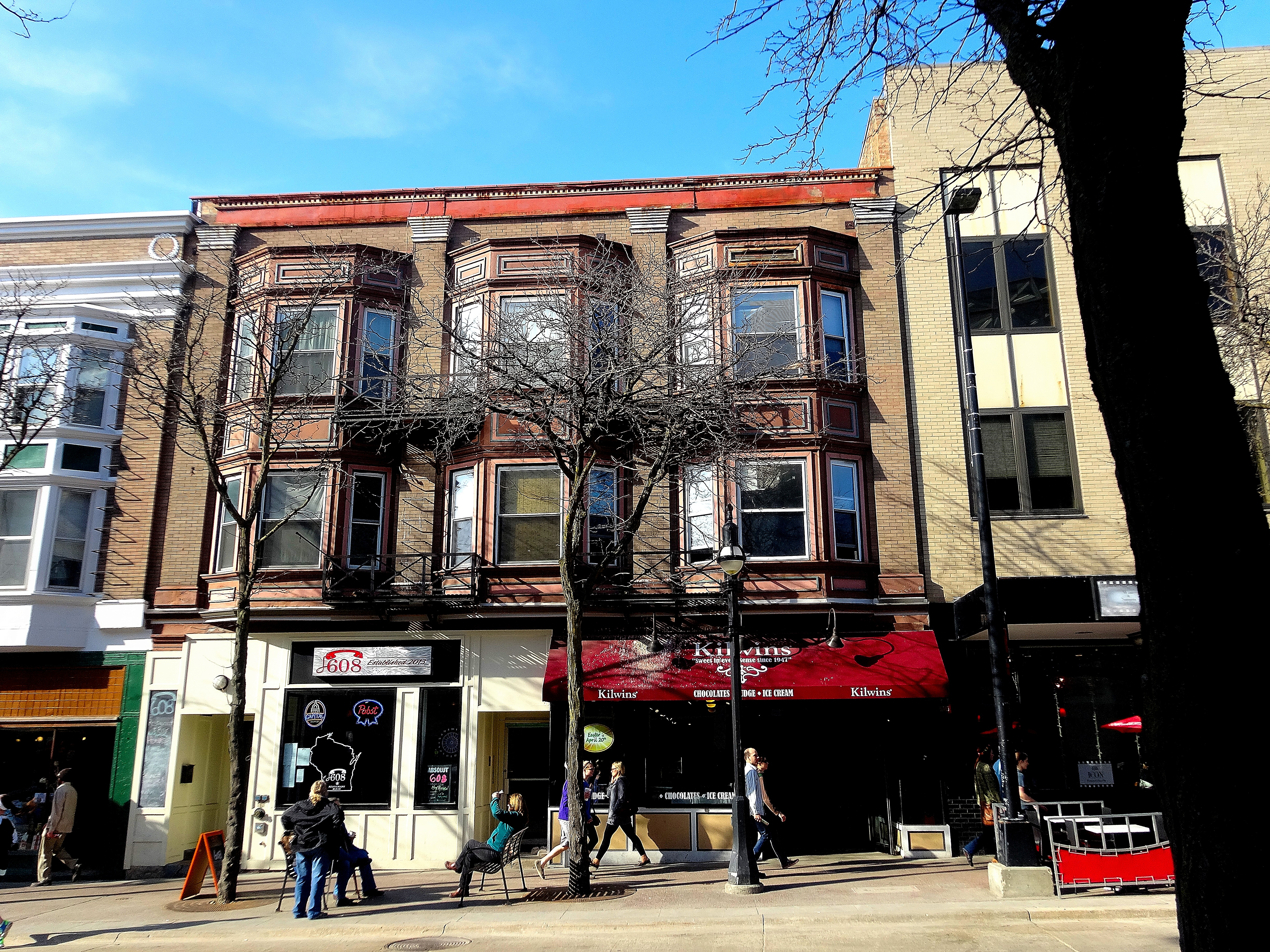 Kilwins Madison